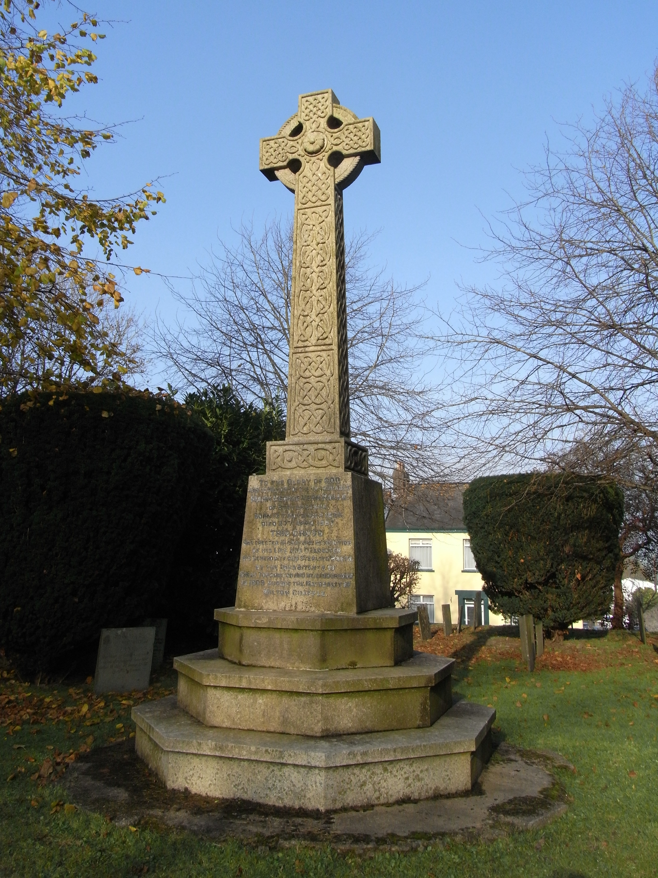 Memorial Cross to Hon. Mark Rolle (1835-1907) of Stevenstone, in churchyard by west door of St Michael's Church, Great Torrington parish Church. Text: "To the glory of God and in memory of the Honourable Mark George Kerr Rolle of Stevenstone, born 13th November 1835 died 27th April 1907 this cross was erected in grateful recognition of his life and character, his generosity and sterling worth, by the inhabitants of Great Torrington and neighbourhood in 1909 during the mayoralty of Milton Chapple"